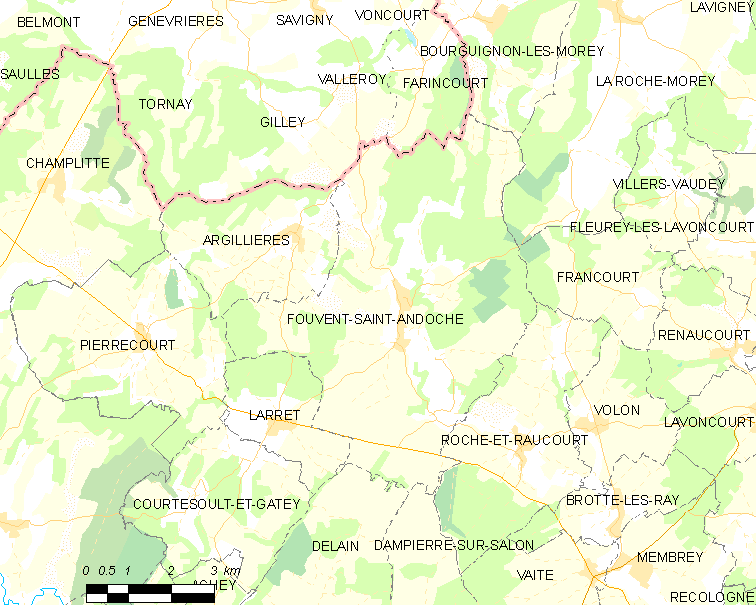 Map of French municipality